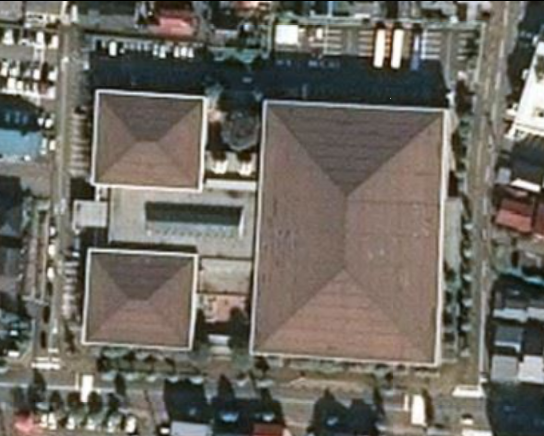 Satellite view, Kanazawa City General Gymnasium